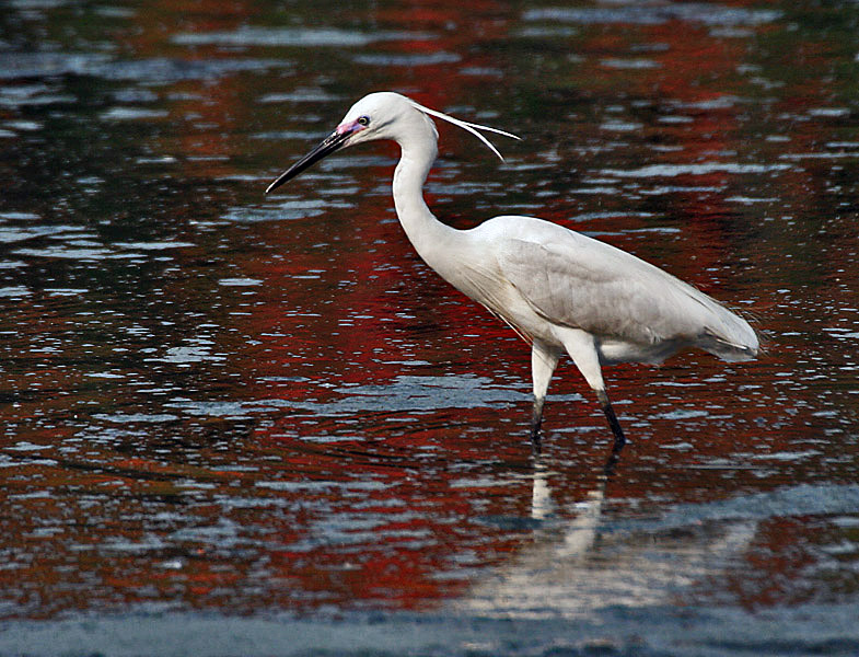 Little Egret Egretta garzetta in Kolkata, West Bengal, India.